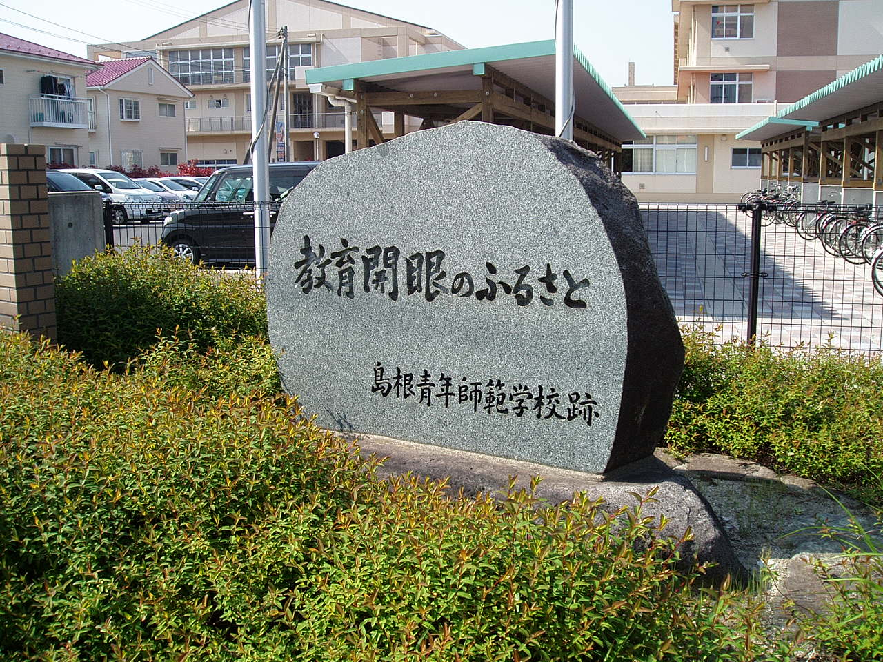 Memorial stone of Shimane Youth Normal School, one of the predecessors of Shimane University, located in Izumo, Shimane, Japan.